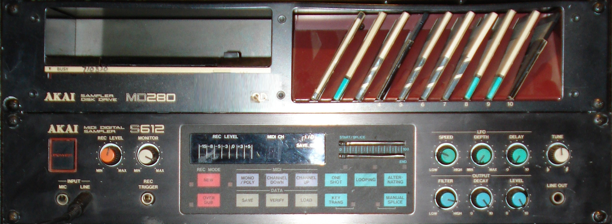 AKAI S612 quoted from: Shawn Rudiman's Studio, Pittsburgh, PA